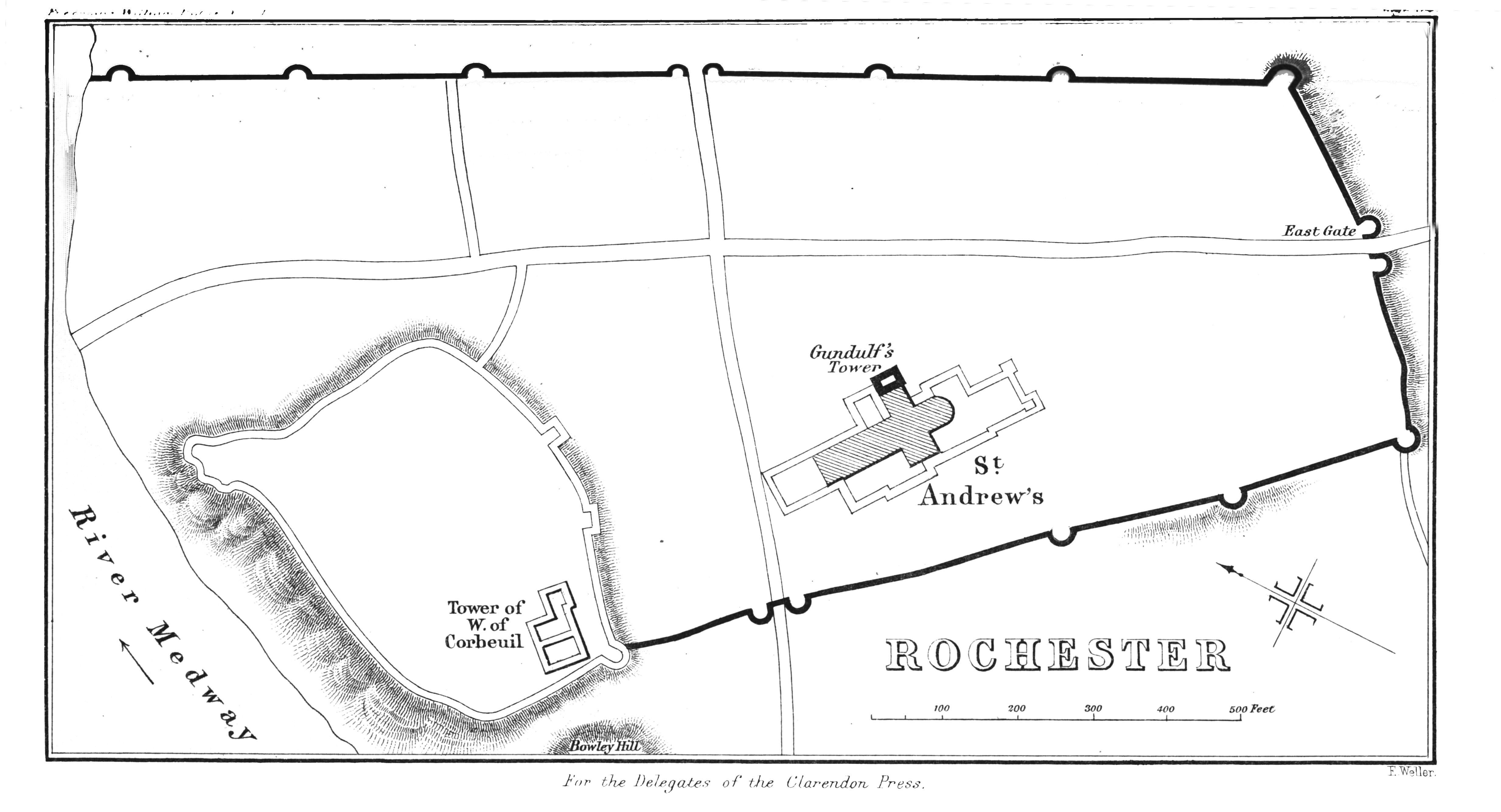 Map of the town of Rochester, England during the reign of King William II of England, c. 1090. Edited to remove noise.